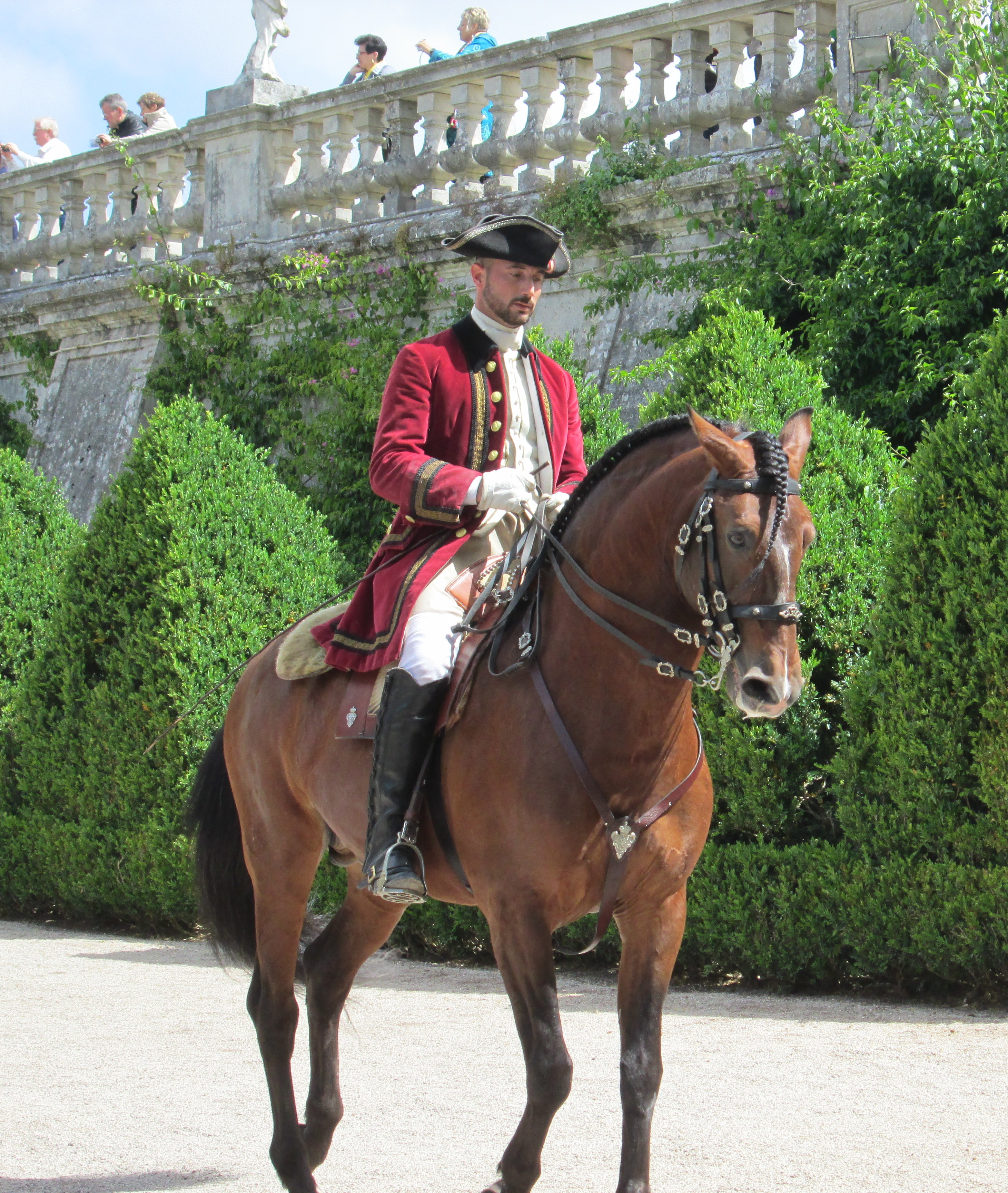 A rider from The Portuguese School of Equestrian Art guides his Lusitano horse in the gardens of the National Palace of Queluz.